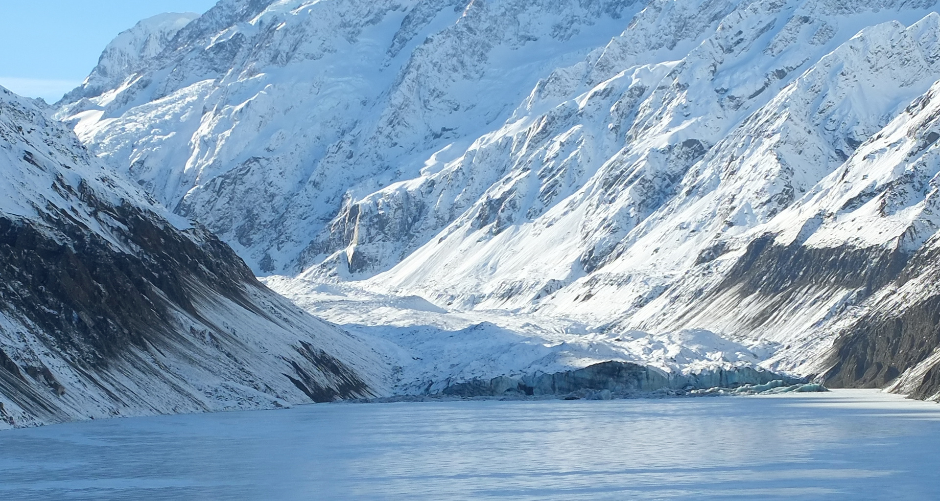 Hooker Glacier behind frozen Hooker Lake in winter (base of Aoraki / Mount Cook in the background) - cropped from wide angle image of lake and glacier